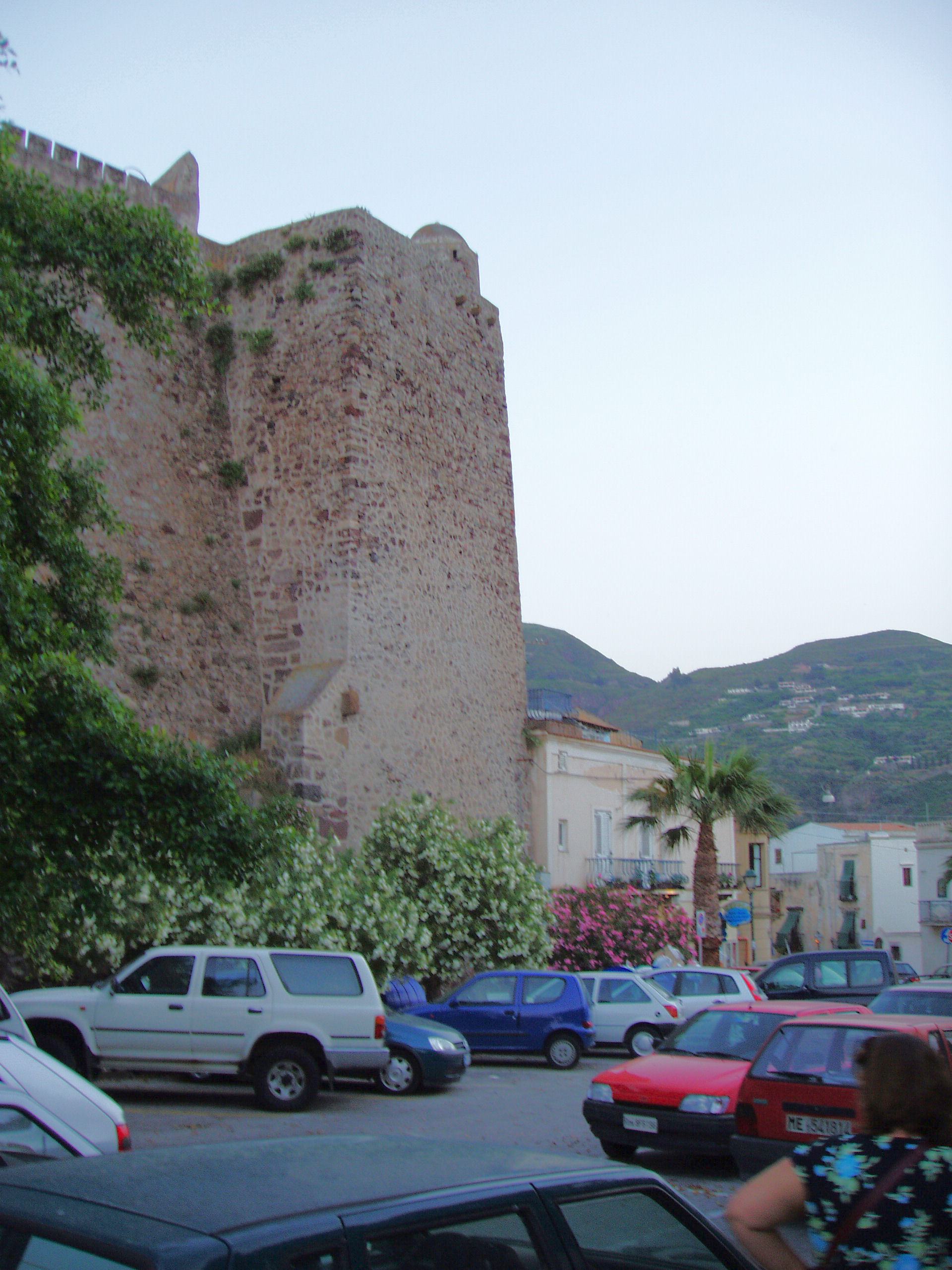 The Castello walls built by Charles V in 1556. Photograph taken by User:Herandar on 06/13/05.